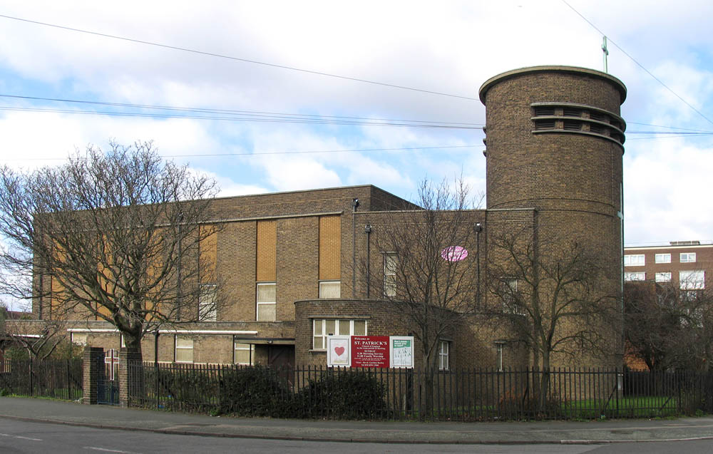 St Patrick's parish church, Blake Avenue, Barking, London (formerly Essex), seen from south-southeast